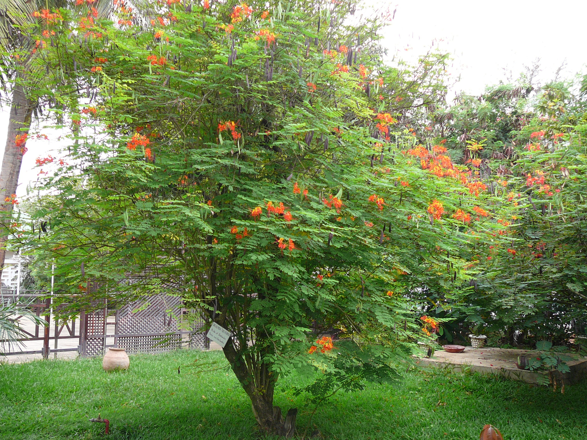 Pride of Barbados